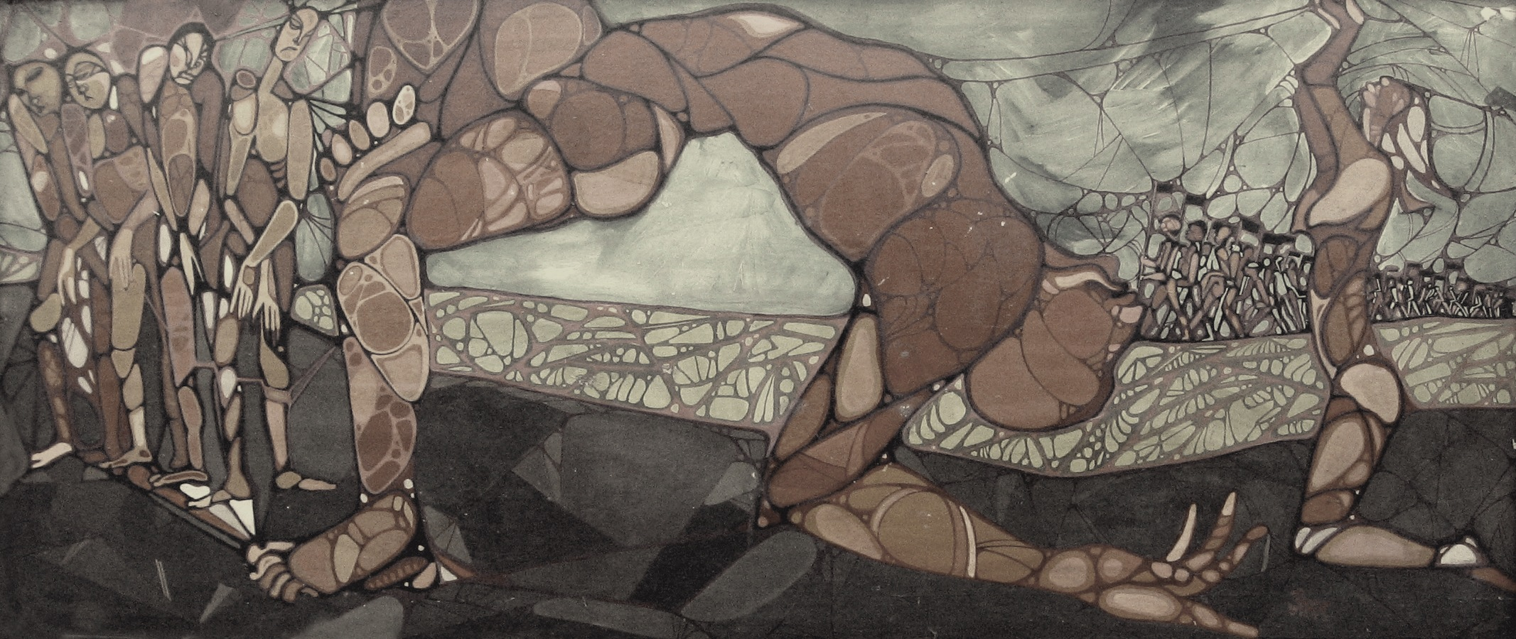 End of an era created by Jahar Dasgupta in the year 1975